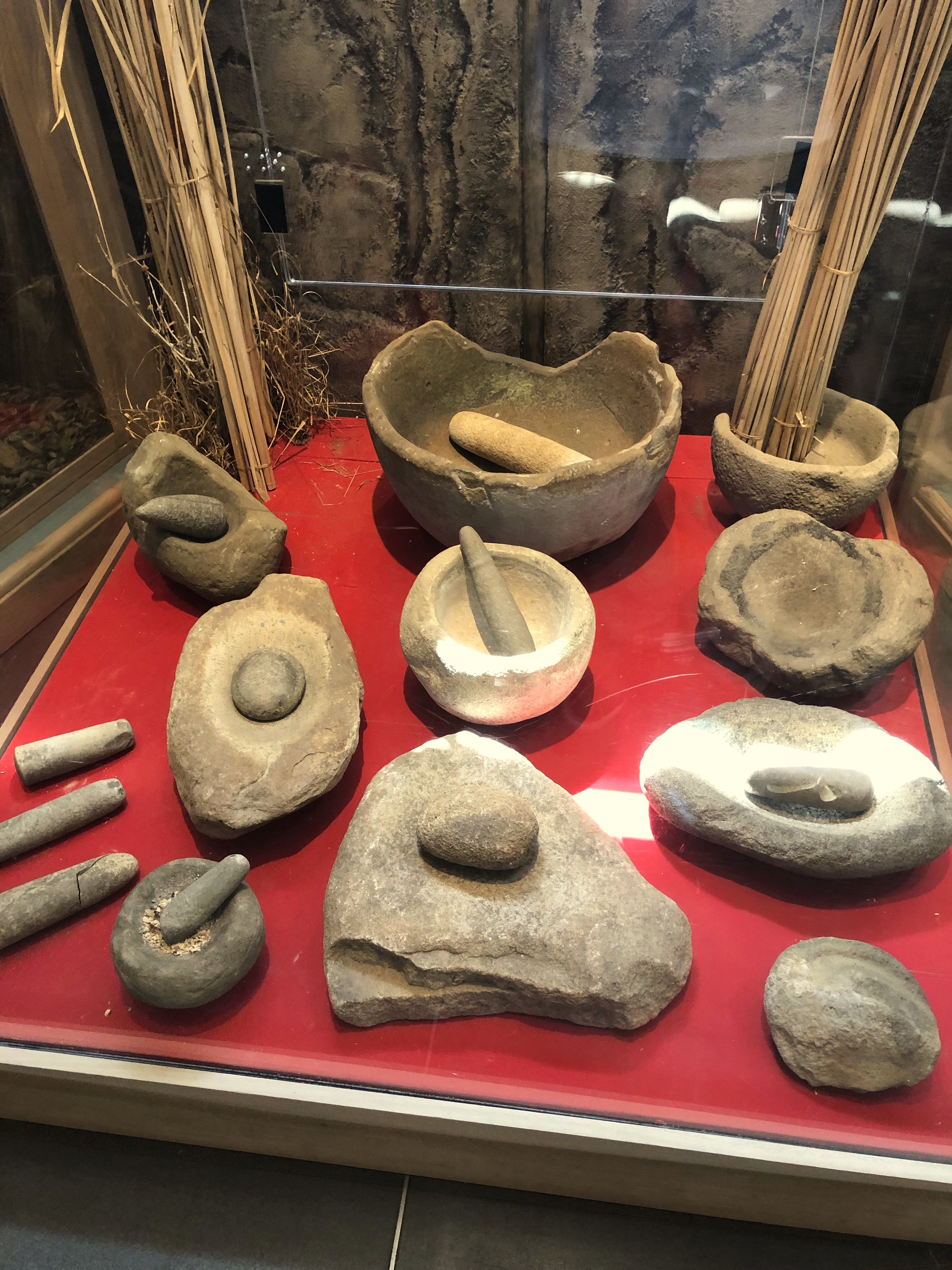 Mortars and pestles, Chumash artifacts at Chumash Indian Museum in Thousand Oaks, CA